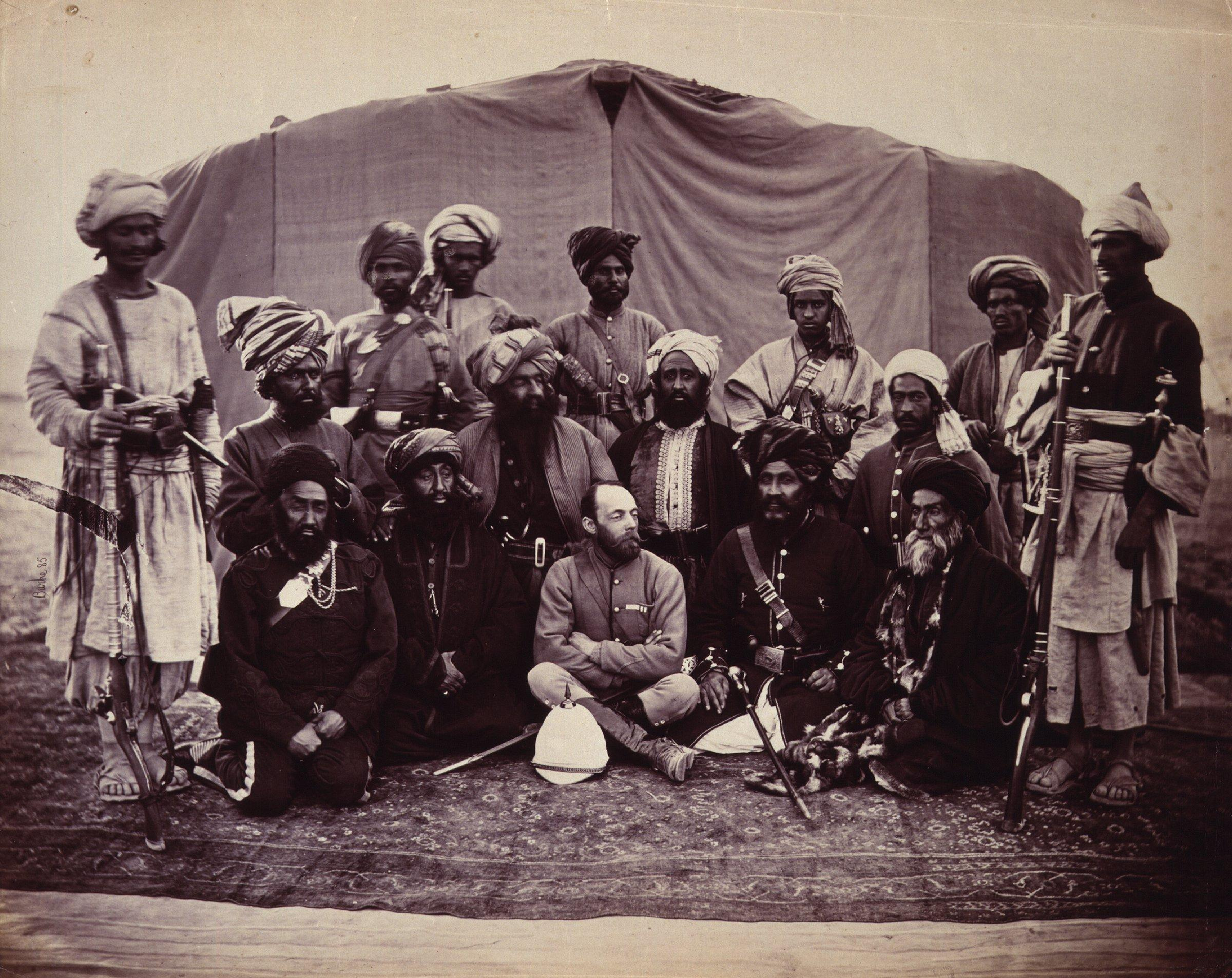 Sir Pierre Louis Napoleon Cavagnari with the Sirdars, by John Burke (died 1905). Sir Pierre Louis Napoleon Cavagnari with Sardars and Nasher Khan, seated on the left. All images in this batch have been confirmed as author died before 1939 according to the official death date listed by the NPG.